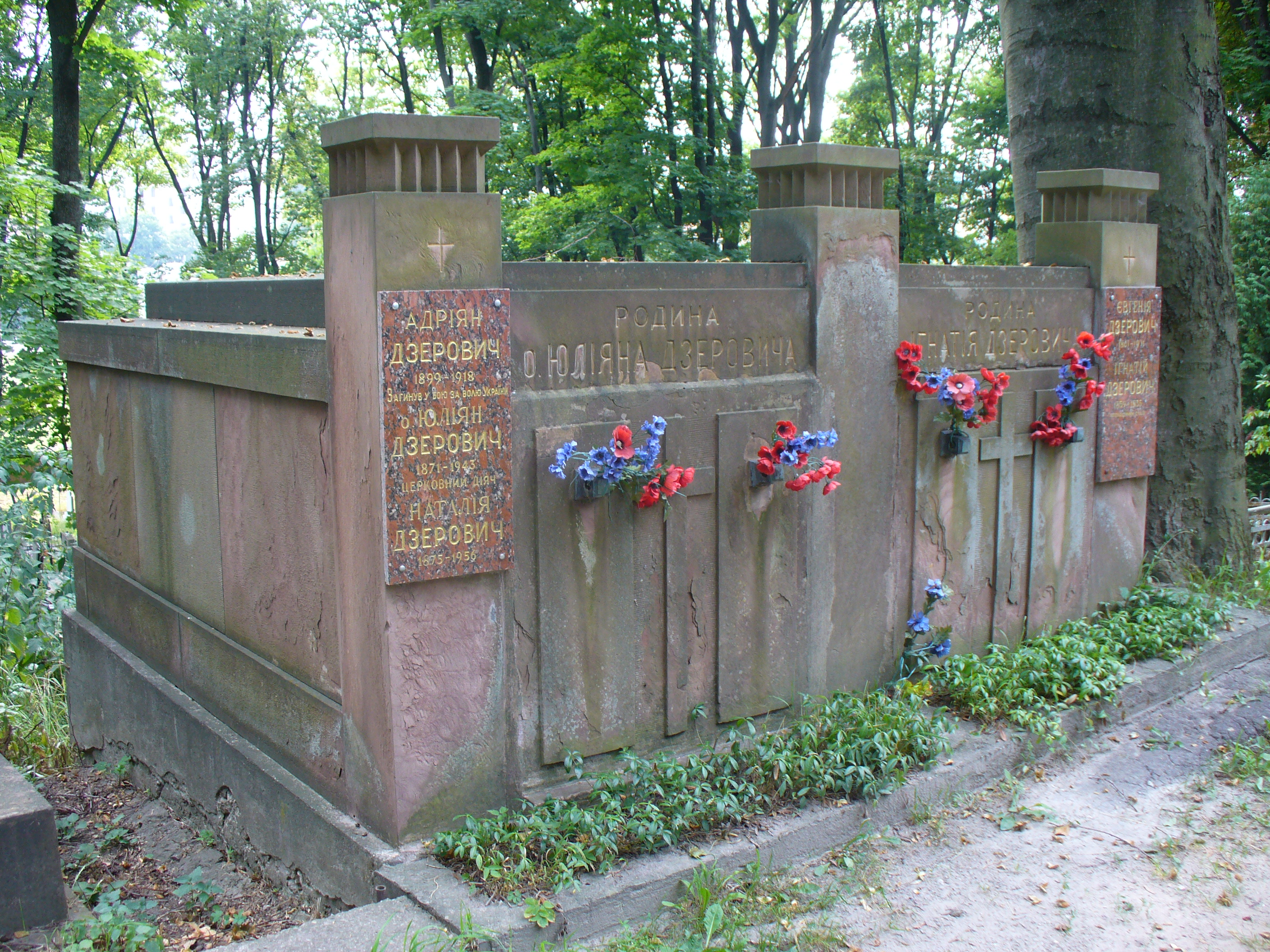 Tomb of the family Dzerovych on Lychakiv cemetery in Lviv